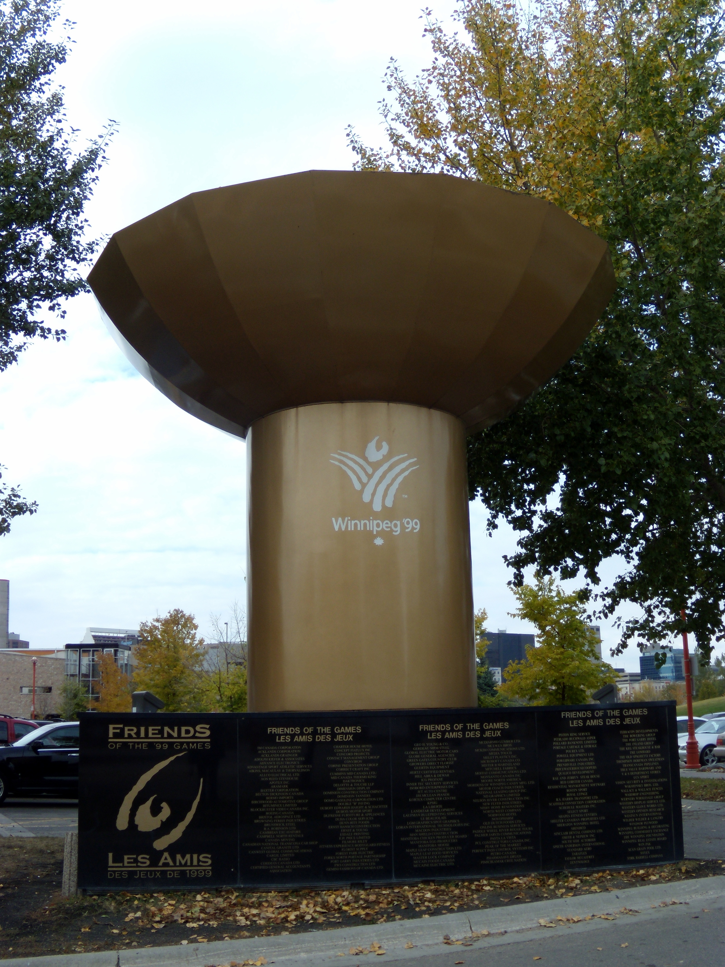 Pan Am Games 1999 torch at The Forks in Winnipeg Manitoba